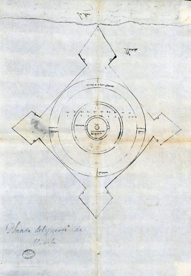 Ground plan of the fortress of Nuestra Señora de Guia in Manila, the first stone fort of the city built by Santiago de Vera in 1587, with plans by Jesuit priest Sedeño.